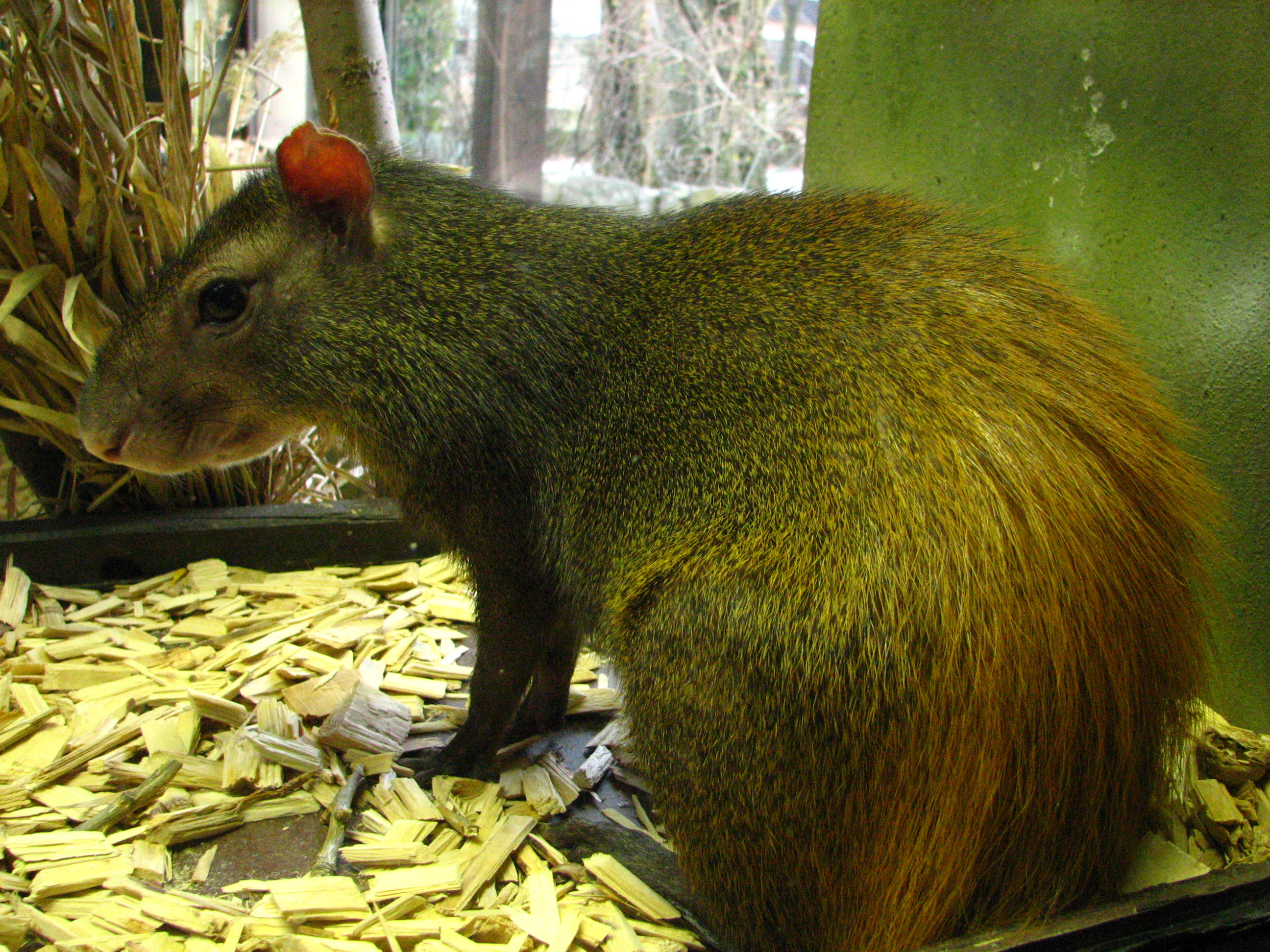 Brazilian Agouti, ZOO Dvůr Králové, Czech Republic